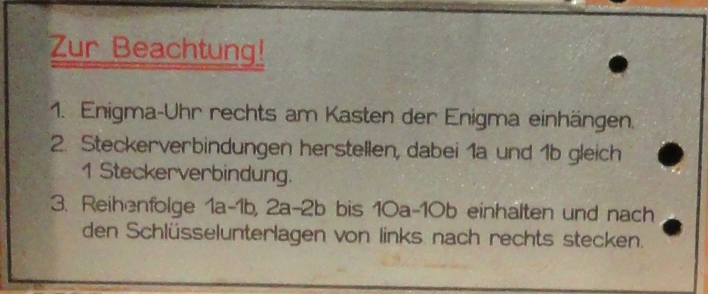 Detail of Image:Enigma-uhr-box.jpg